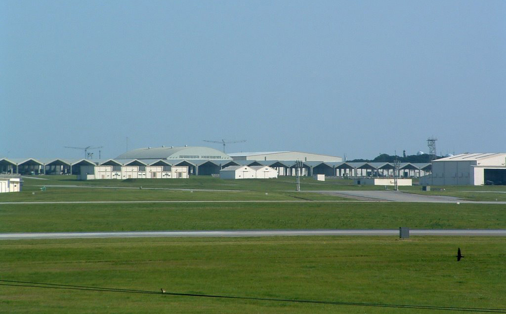 Kadena Air Base.